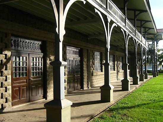 Silliman Hall the oldest building built in 1901